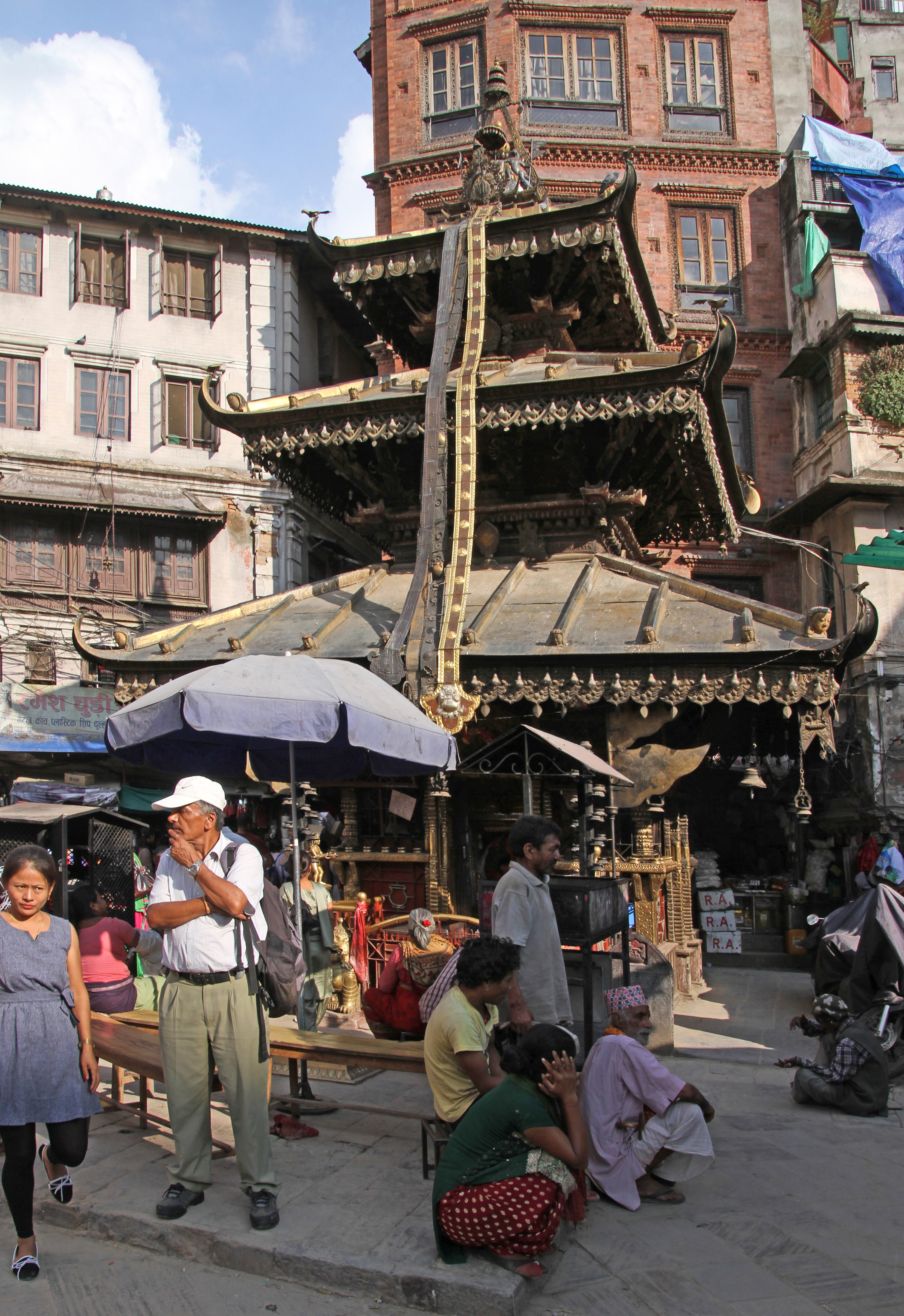 Annapurna Temple, Kathmandu